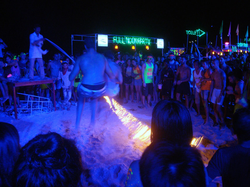 Playing fire skipping rope at Full Moon Party, Haad Rin Sunrise Beach, Koh Phangan